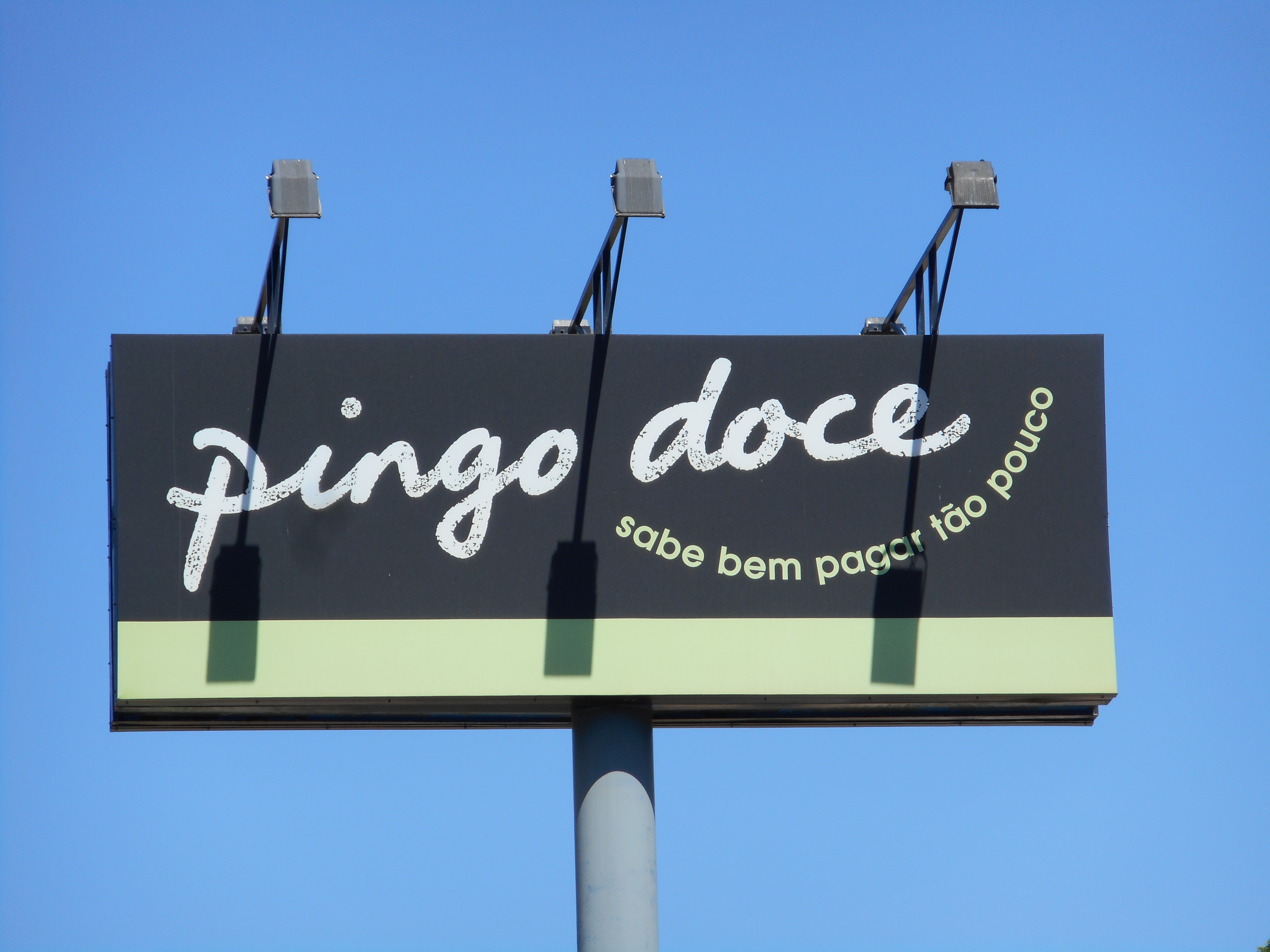 The Pingo Doce supermarket advertising gantry located outside the supermarket, on the corner of Avenida Salgado Zenha and the Rua Alves Redol in the city of Albufeira, Algarve, Portugal